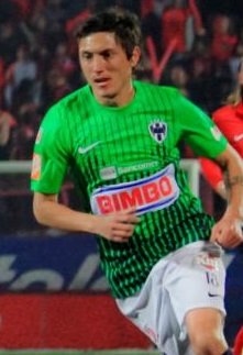 Monterrey player Neri Cardozo